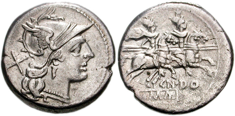 Roman Republic Cn. Domitius Ahenobarbus. 189-180 BC. AR Denarius (18mm, 4.17 g, 1h). Rome mint. Helmeted head of Roma right; X (mark of value) behind Dioscuri on horseback riding right. Below CN • DO; ROMA in exergue in tablet